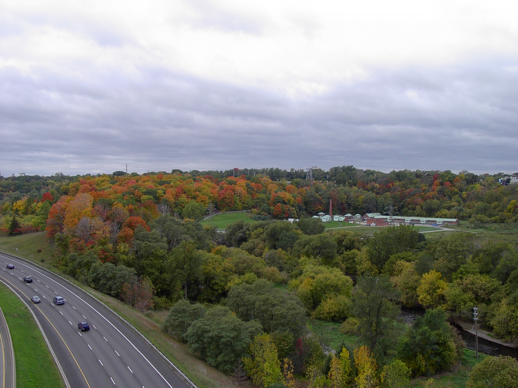 Autmnn colours of Crothers' Woods. The Don Valley Parkway can be seen in the lower foreground and the North Toronto Sewage Treatment Plant can be seen in the middle background. The photo was taken from the Millwood Road Leaside Bridge.